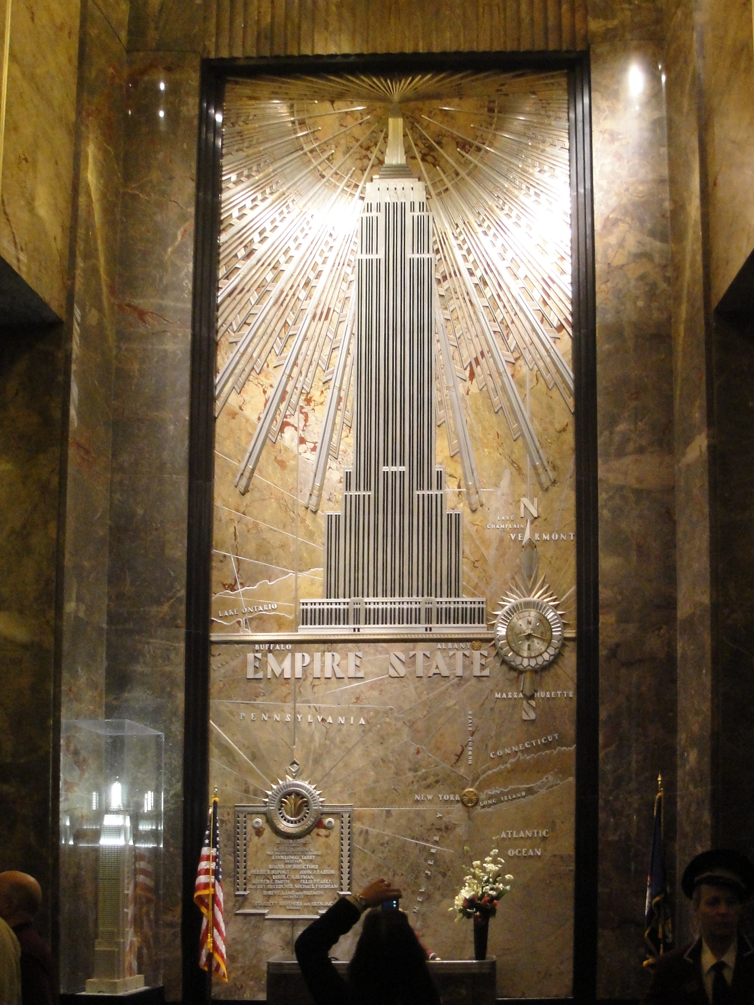 The mural in the lobby of the Empire State Building.